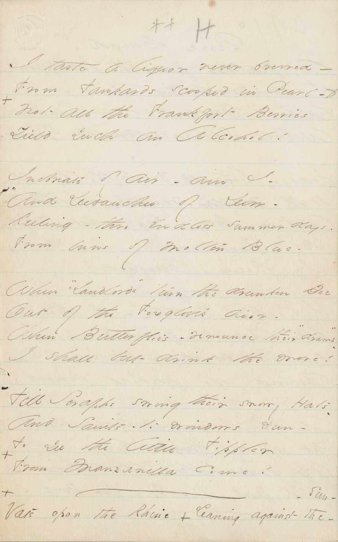 Manuscript copy of Emily Dickinson poem I taste a liquor never brewed. The source image was straightened and cropped of its black border.